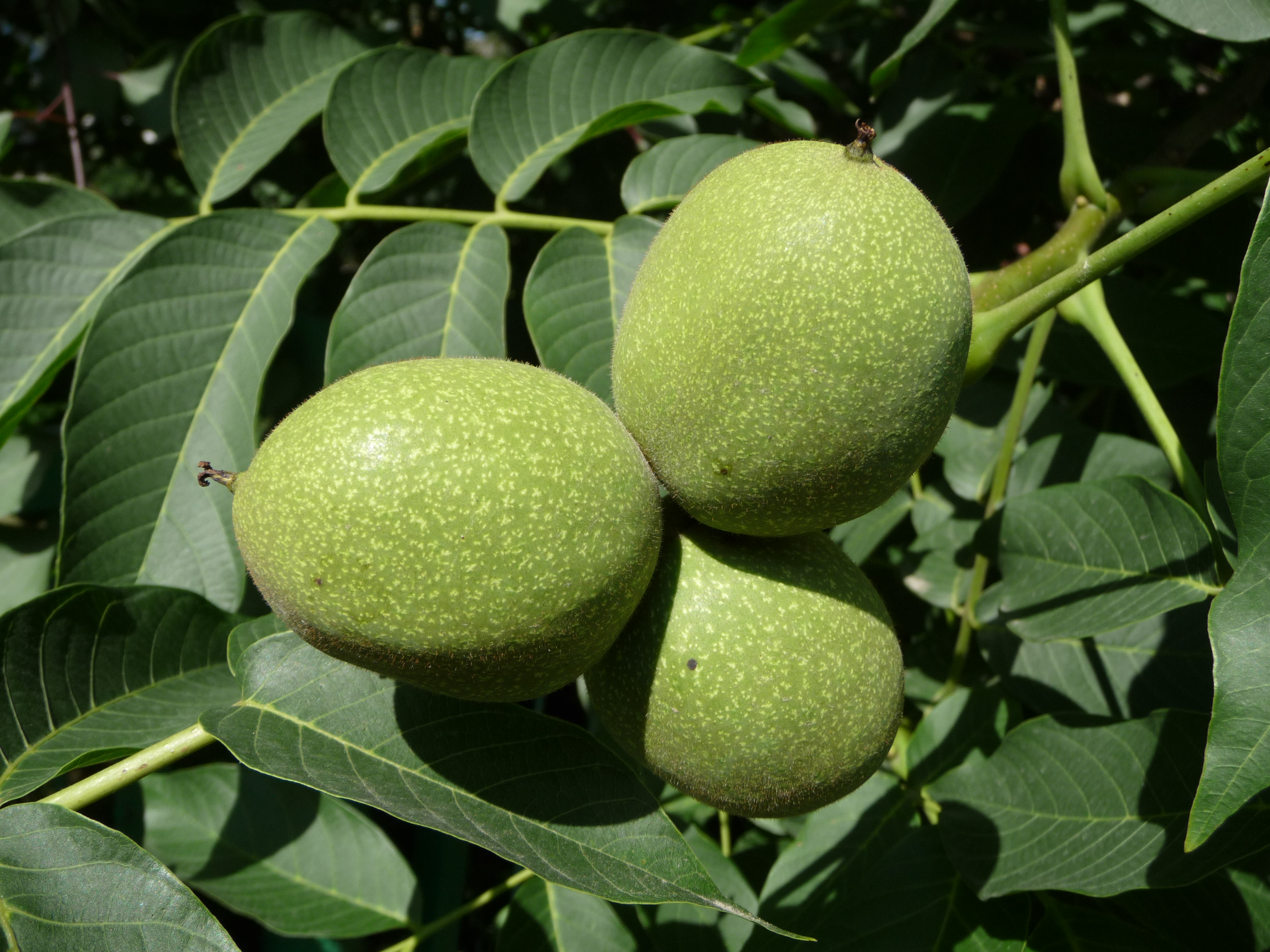 The Common walnut, Persian walnut, or English walnut (Juglans regia). Unripe nuts. July. Ukraine.